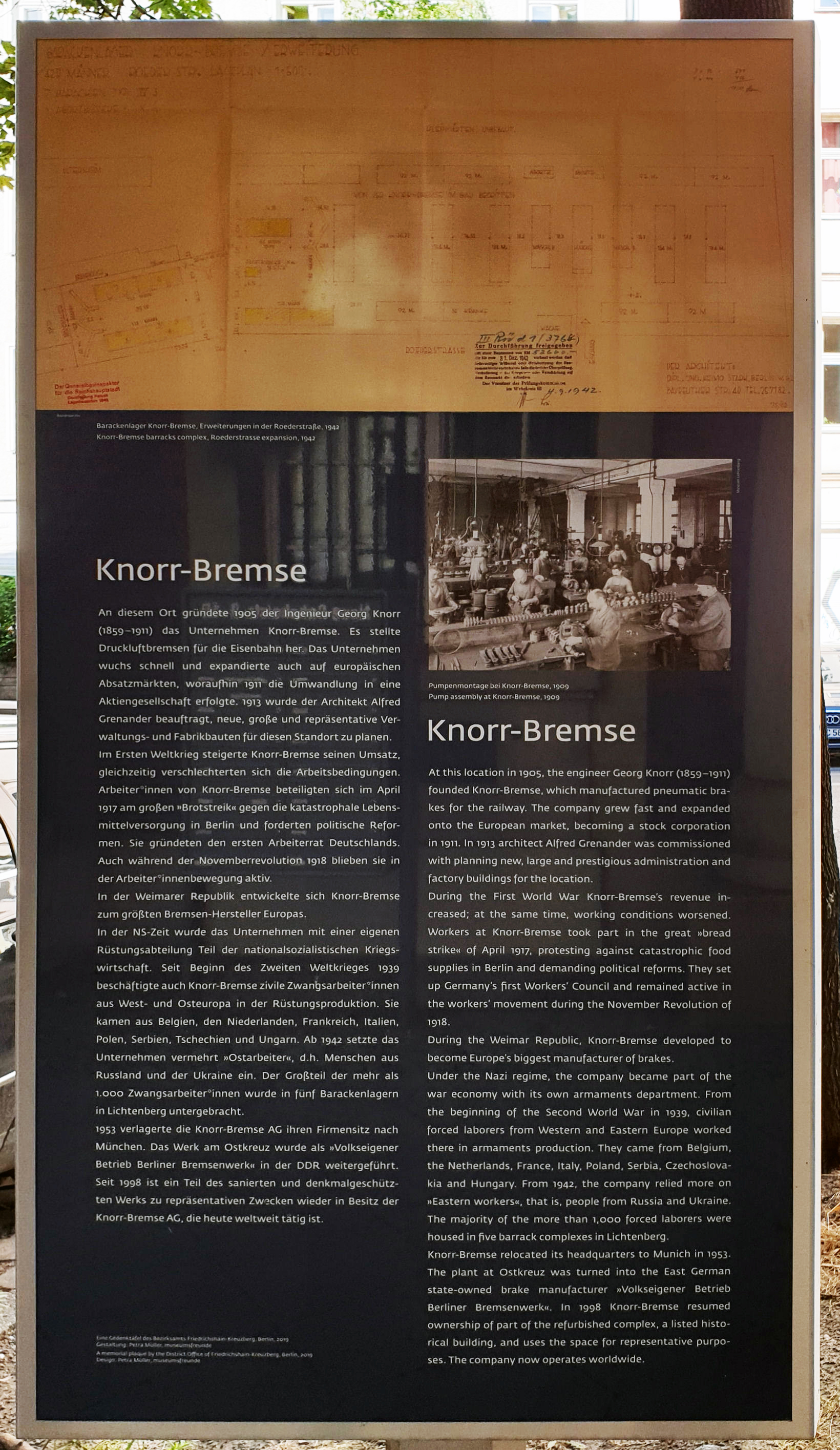 Memorial plaque, Knorr-Bremse, Neue Bahnhofstraße 9, Berlin-Friedrichshain, Deutschland